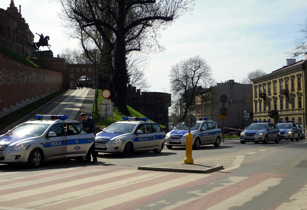 Polish police vehicles parked outside the Wawel Palace/Fortress on the day of the Polish president's funeral 18. April 2010